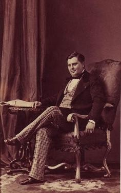 Alexandre Colonna-Walewski, son of Napoléon Bonaparte and his mistress Maria Walewska